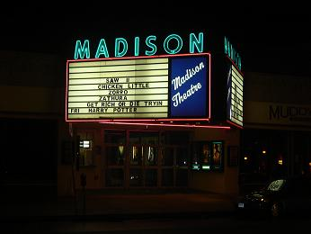 Madison Theater in Albany, New York, United States